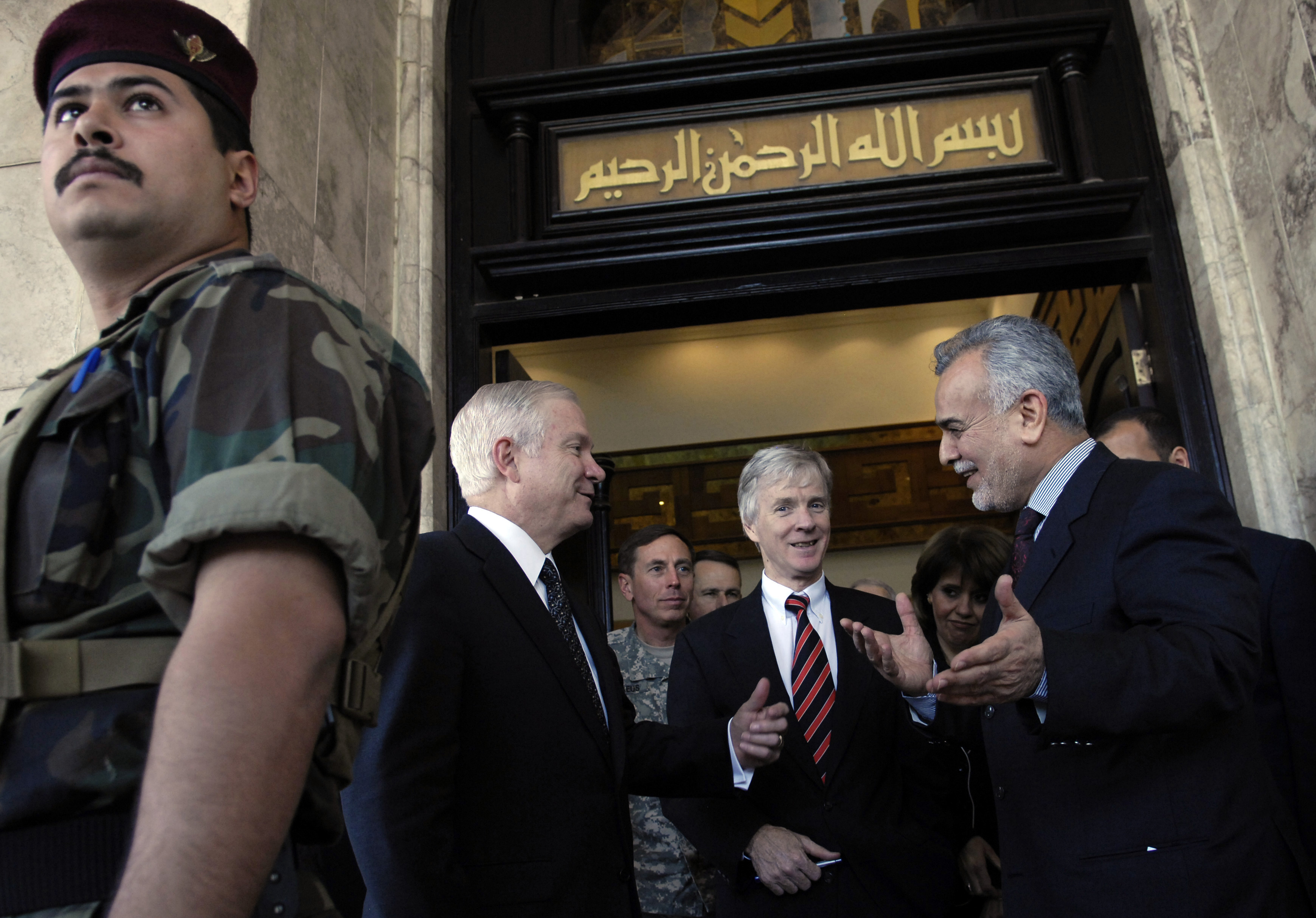 Secretary of Defense Robert M. Gates (2nd from left) speaks with Iraqi Vice President Tariq al-Hashimi (right) after meeting with Iraqi leadership at the Presidential Palace in Baghdad, Iraq, on April 20, 2007. Gates is urging the Iraqi officials to speed up national reconciliation among the country's various factions in order to progress toward justice and reconciliation in Iraq. U.S. Ambassador to Iraq Ryan Crocker (center) joined Gates in the meetings with Iraqi officials.